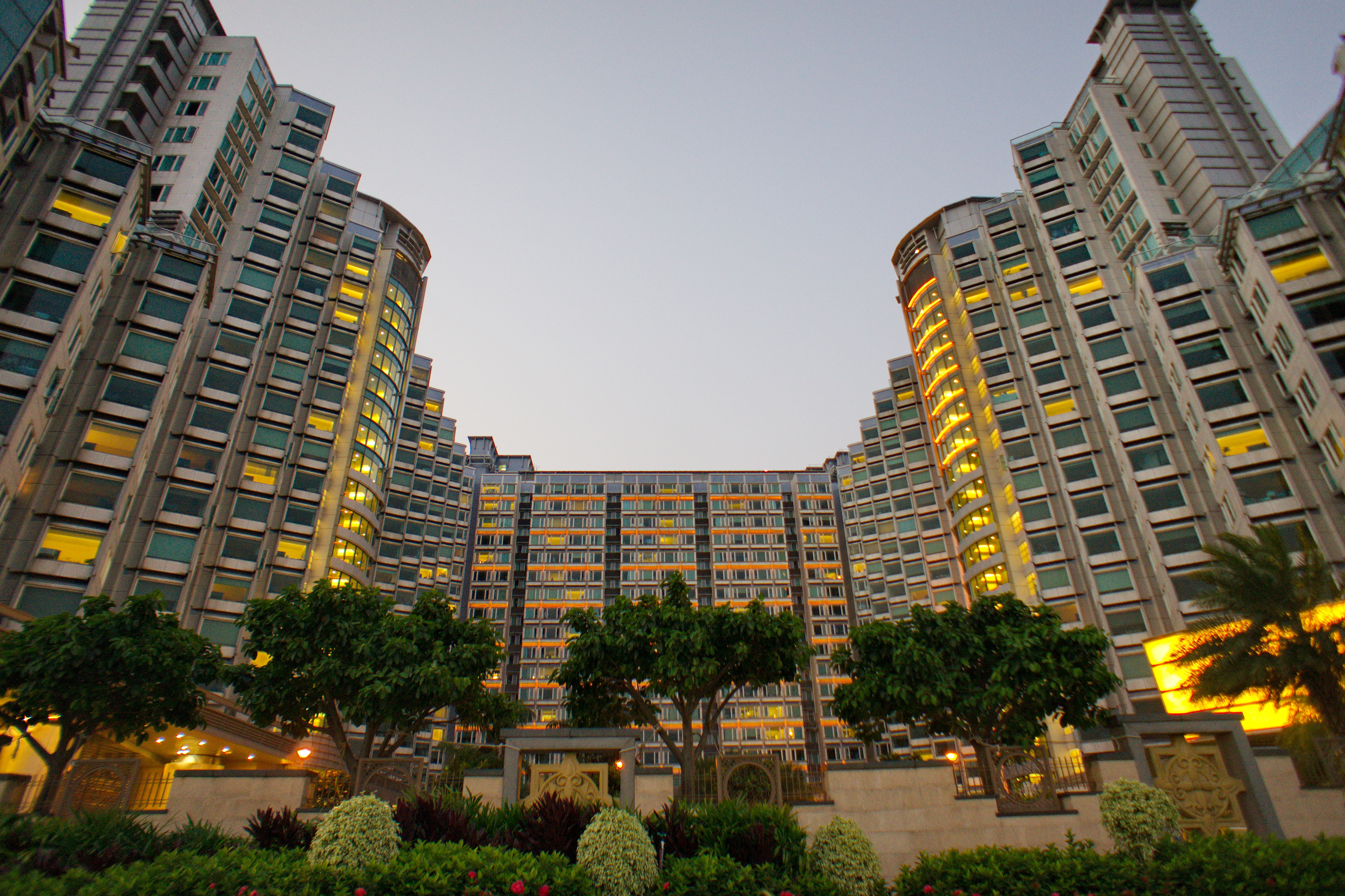 Harbourfront Horizon, Hung Hom, Kowloon, Hong Kong.